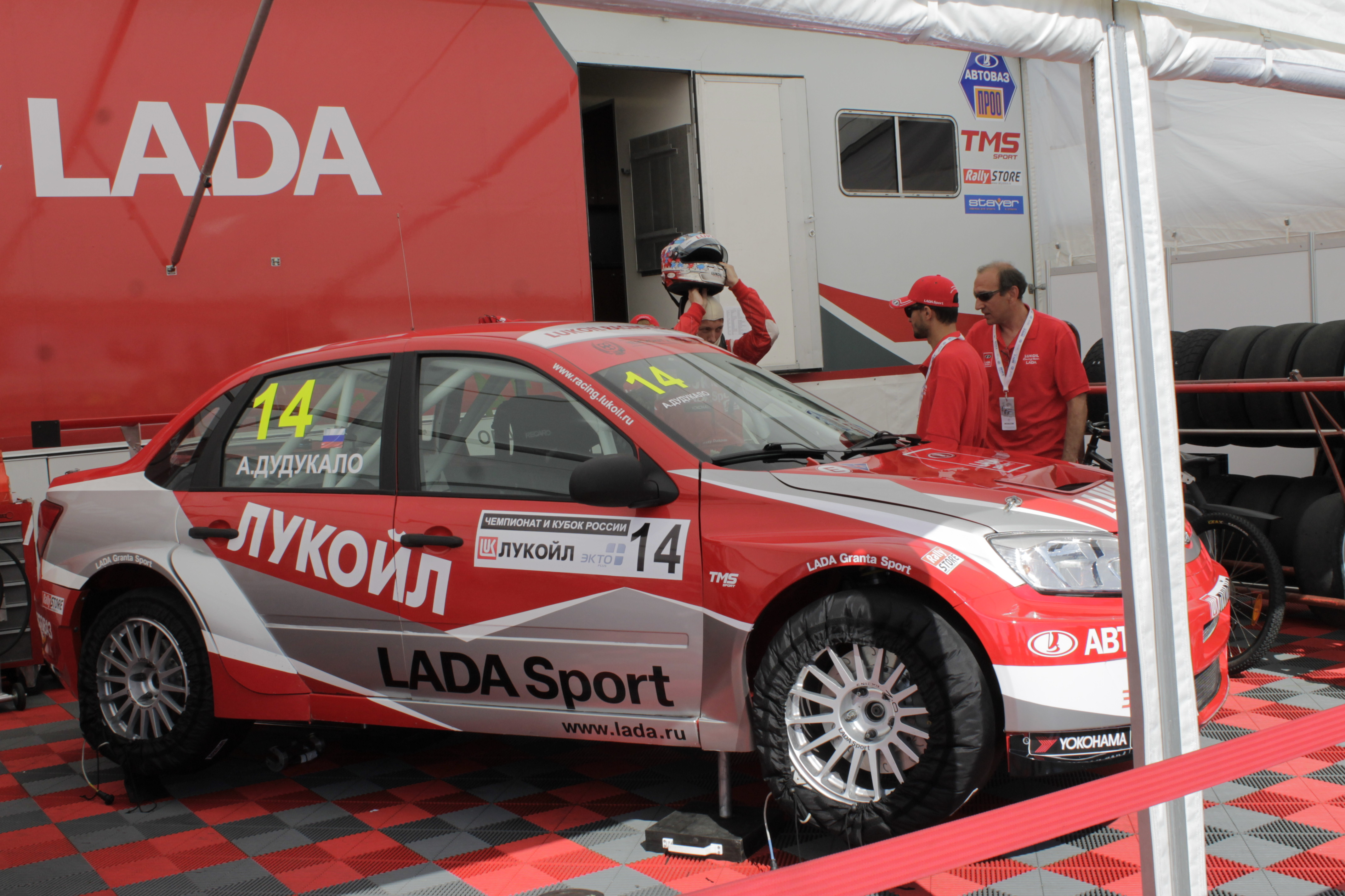 Lada Granta Sport for Lada Granta Cup. The start number 14, diver Alexei Dudukalo, Lukoil Racing team. Photos from the Lada Grant Cup Stage 1 in 2013, Moscow Raceway.